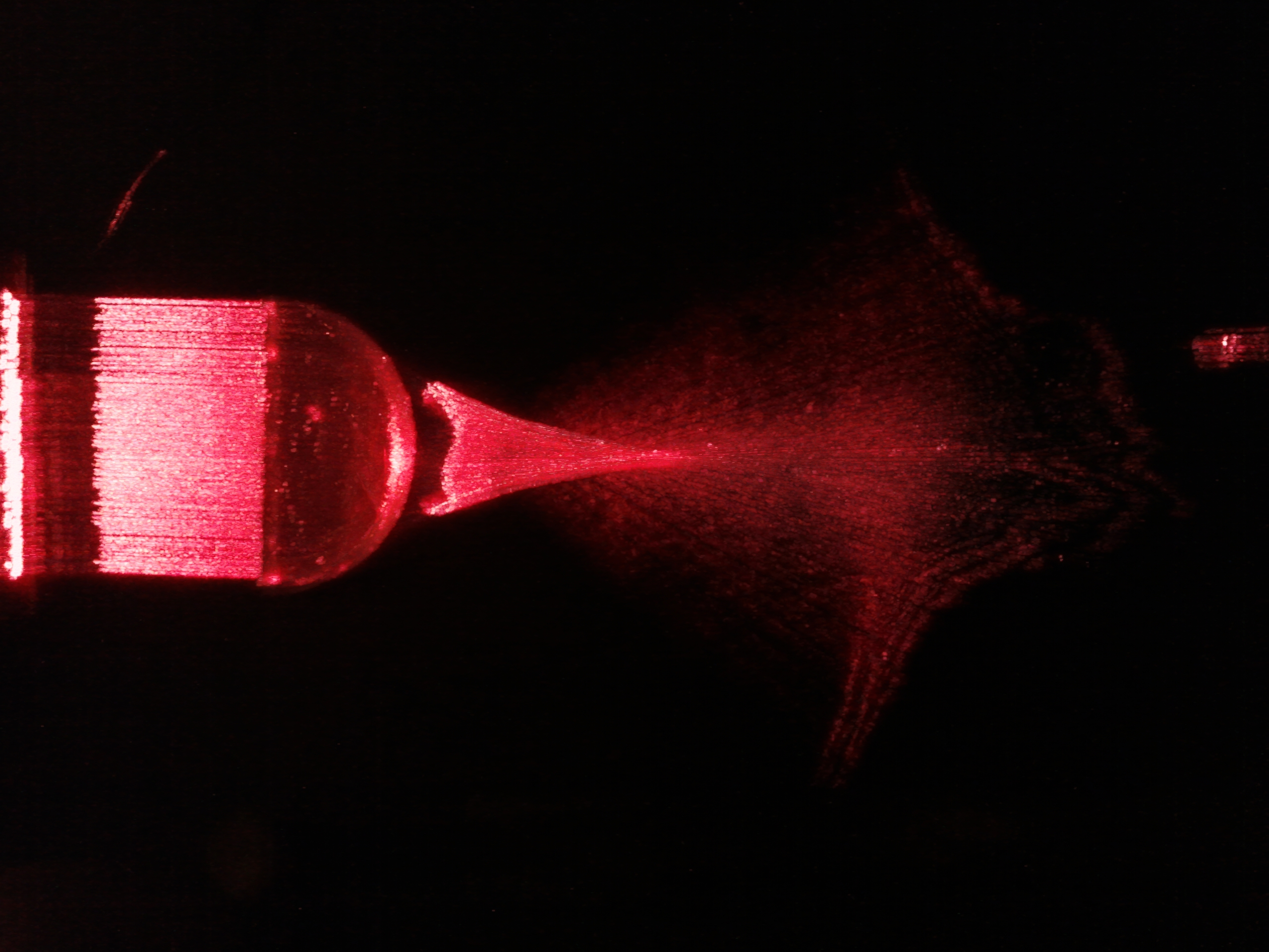 Spherical abberation shown on plano-convex lens.